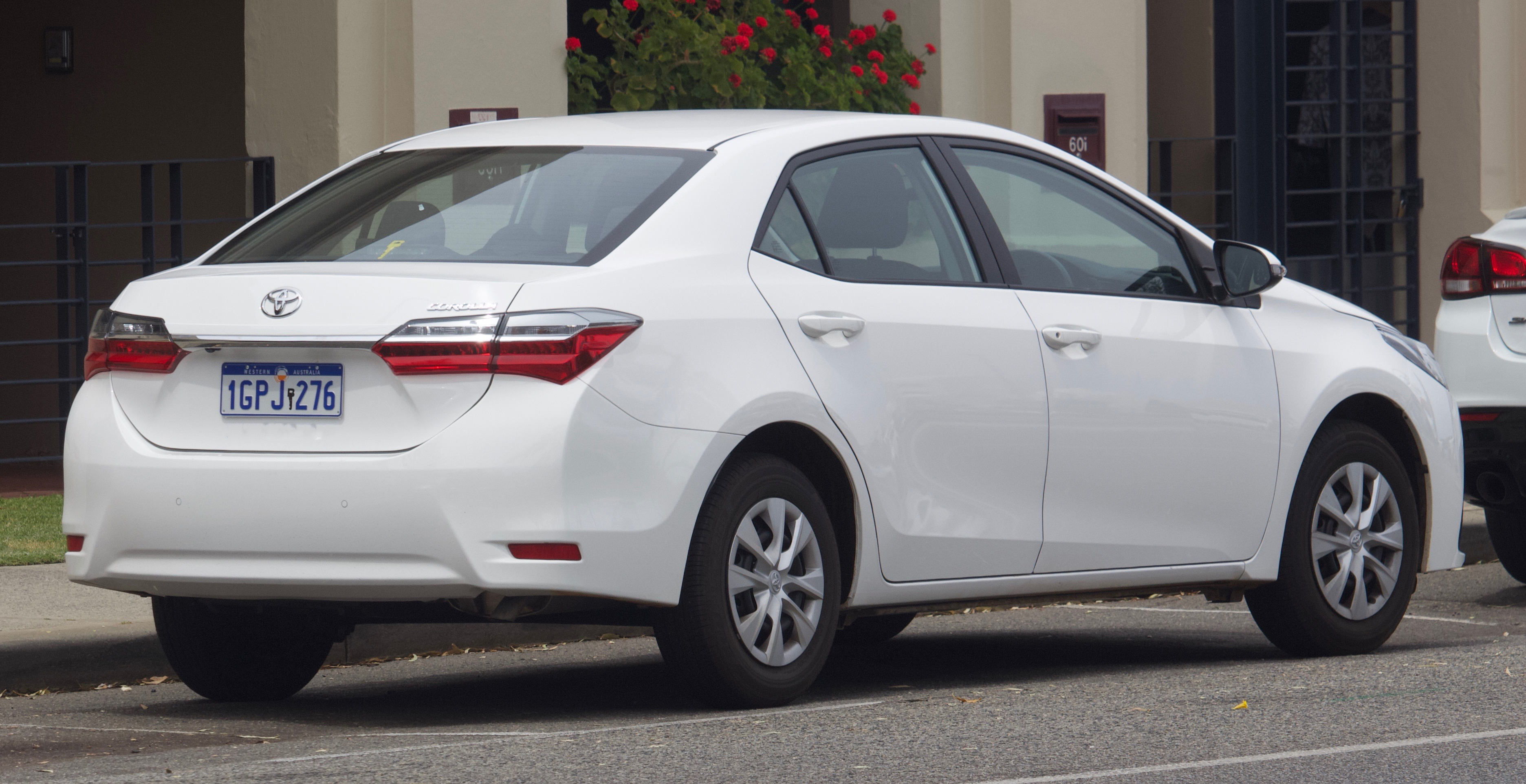 2018 Toyota Corolla (ZRE172R) Ascent sedan. Photographed in Fremantle, Western Australia, Australia.